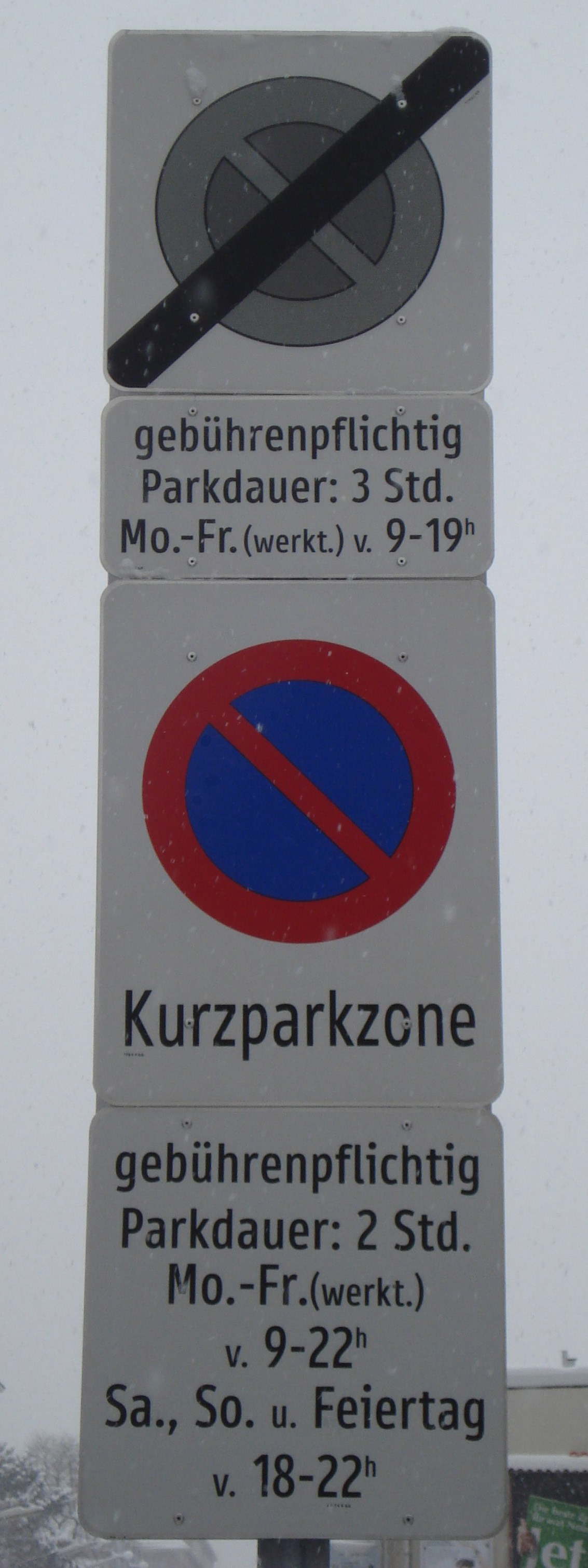 Traffic signs at the entrance to the short-term parking zone in the area surrounding Wiener Stadthalle in Vienna/Austria.